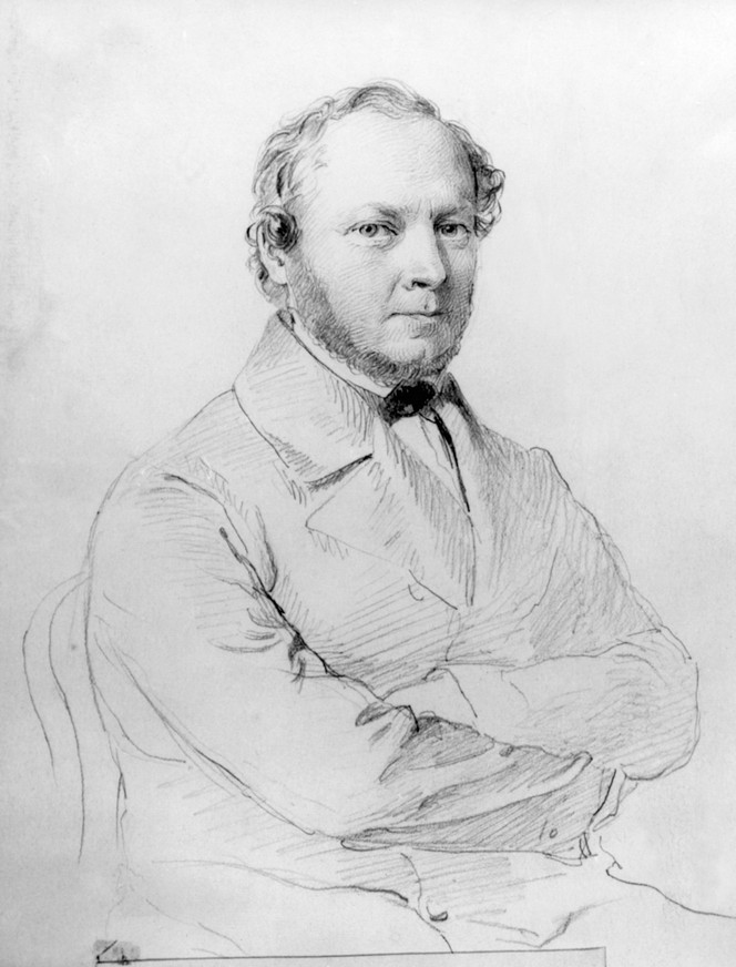 Eduard Hlawaczek (1808–1879), Czech physician and author